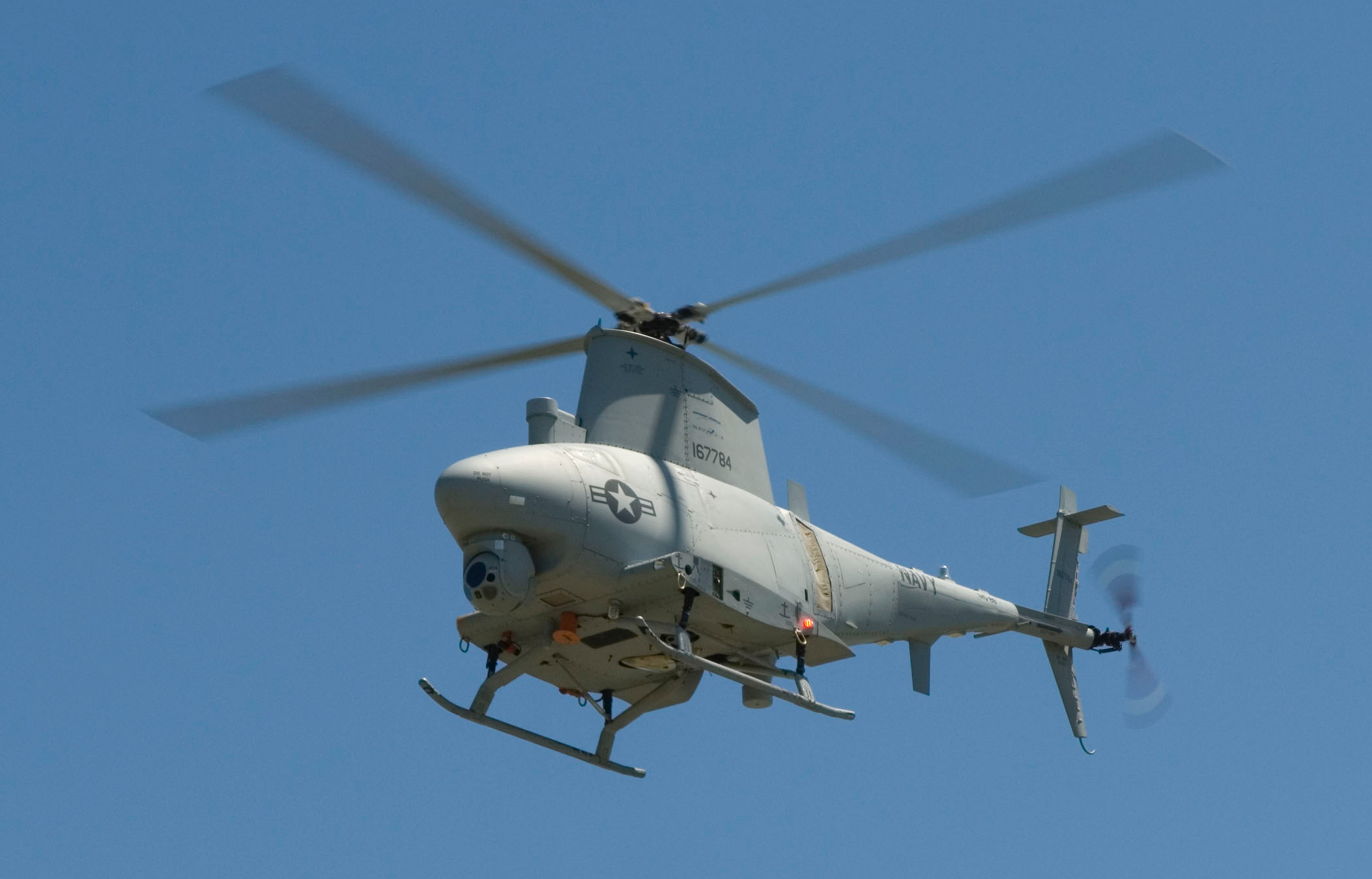 MQ-8B Fire Scout Vertical Unmanned Air System (VUAS) flies with the BRITE Star II electro-optical/infrared payload using a Tactical Common Data Link (TCDL) at Webster Field, Naval Air Station Patuxent River, Md.